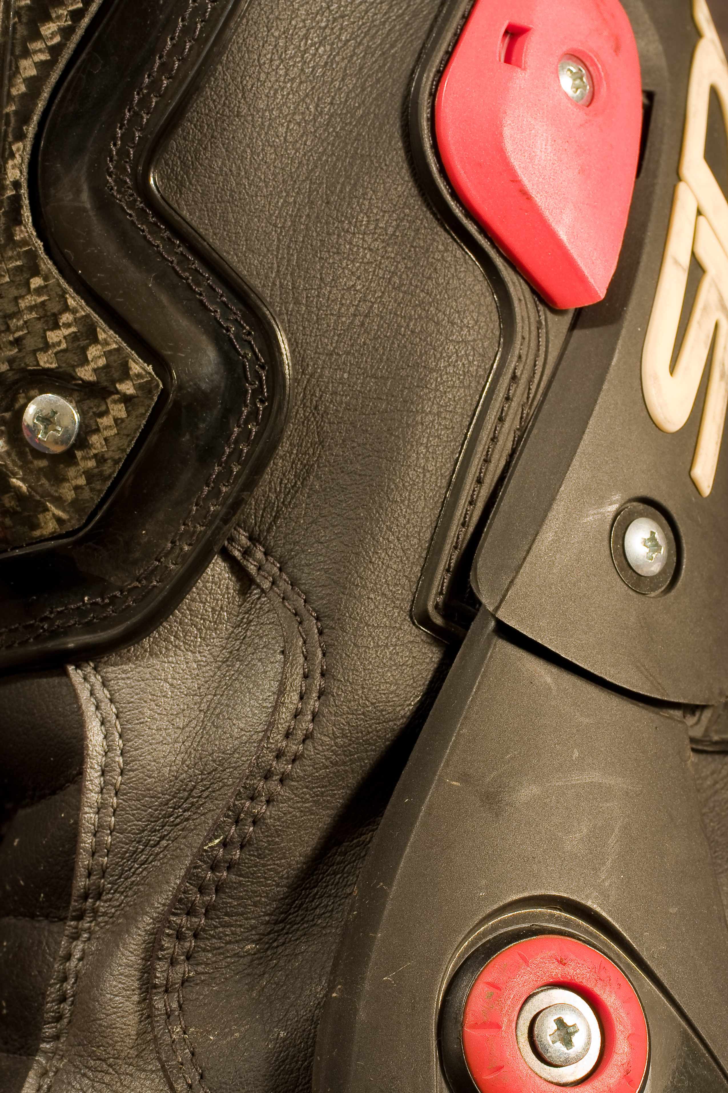 Detail of motorcycle racing boot's shin. On upper left, part of heavy shin protection can be seen, while on the right, torque protector intended to prevent ankle injuries caused by lateral forces is seen.